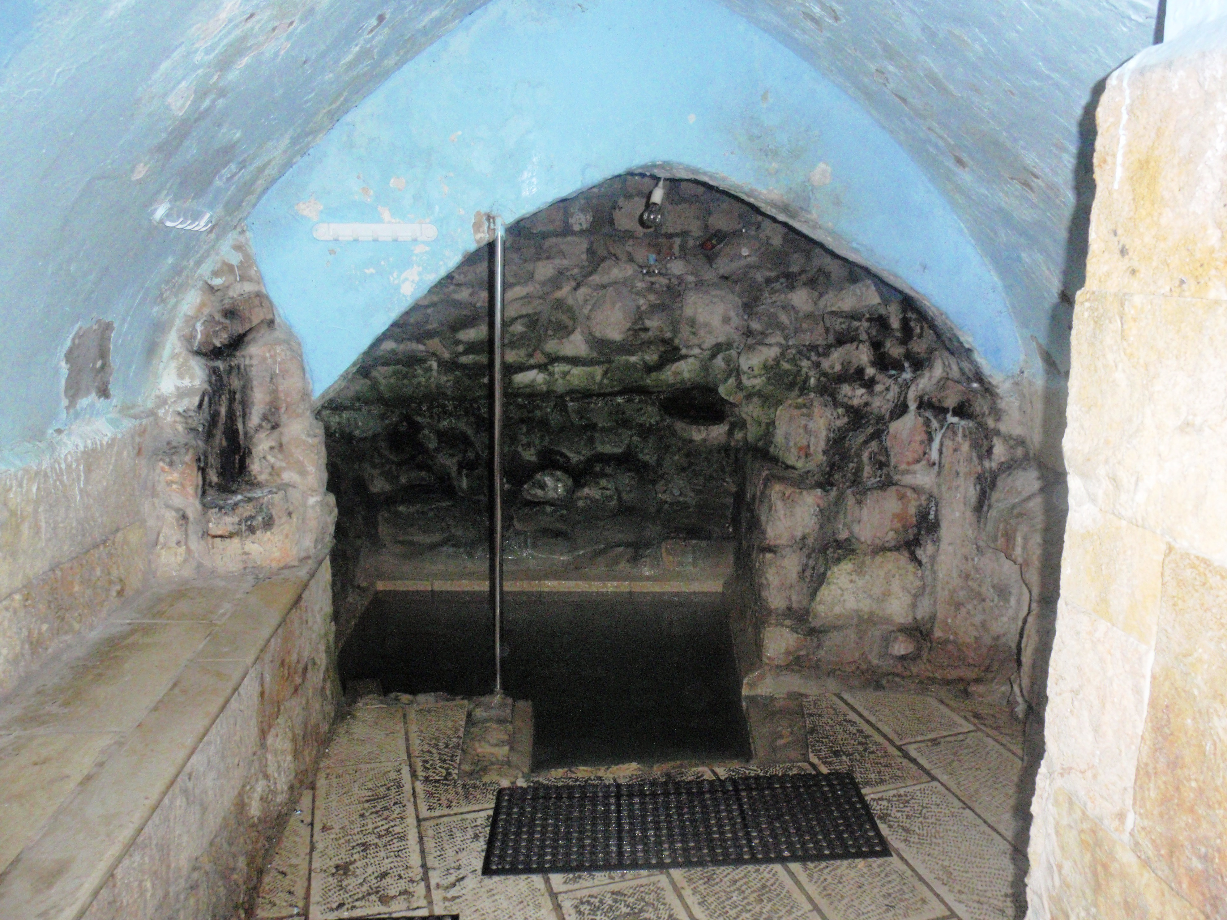 Israel - Safed - the Ari mikveh.